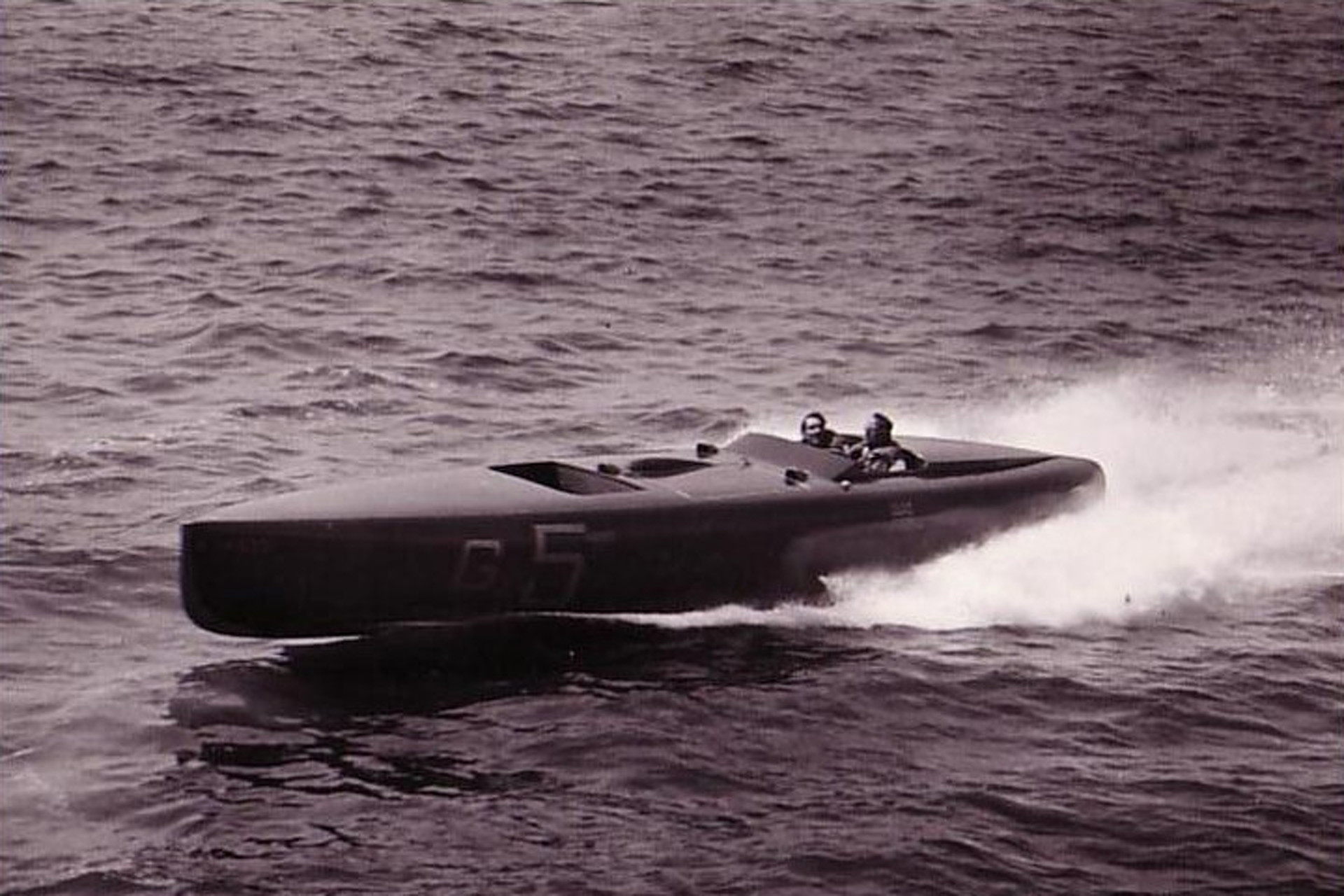 1924 speedboat Baby Bootlegger for the Wikipedia Baby Bootlegger article